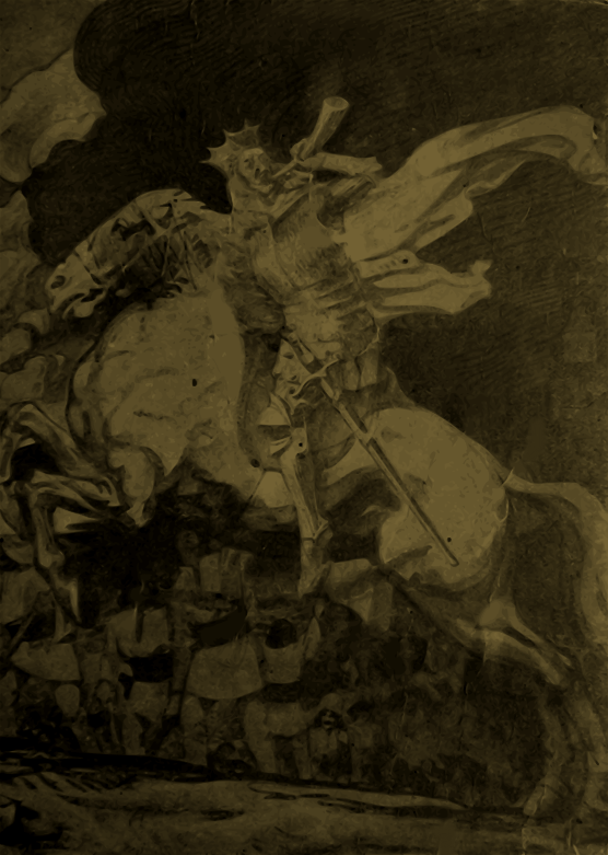 Book cover illustrating the poem Doina by Mihai Eminescu: Stephen III of Moldavia sounding his horn to rally the peasant soldiers. Bibliographic details in Perpessicius, Studii eminesciene, p. 366. Museum of Romanian Literature, 2001. ISBN 973-8031-34-6